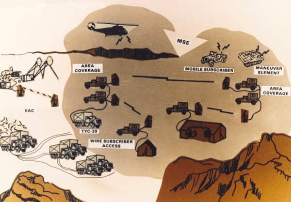 Mobile Subscriber Equipment concept, courtesy of the United States Army.